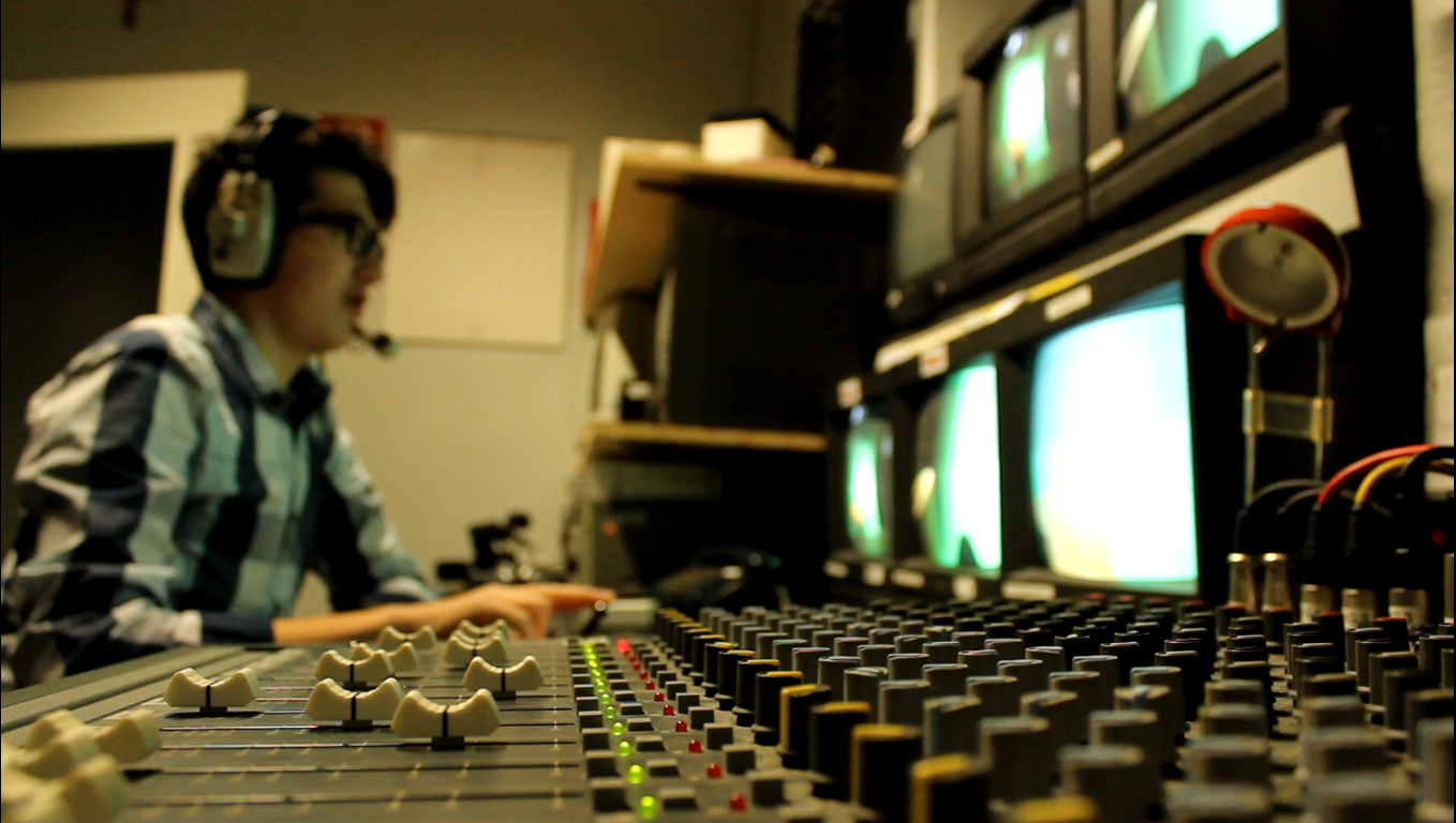 Mixing console in TV studio